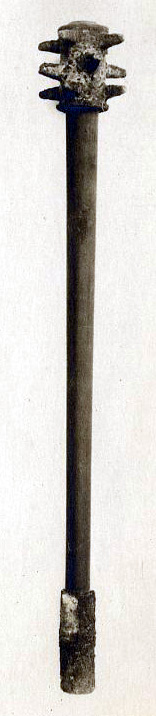 Mace head, ferrule